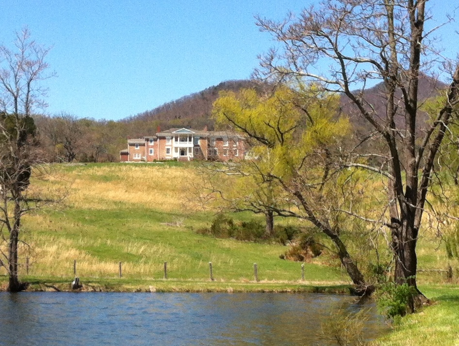 Greyledge